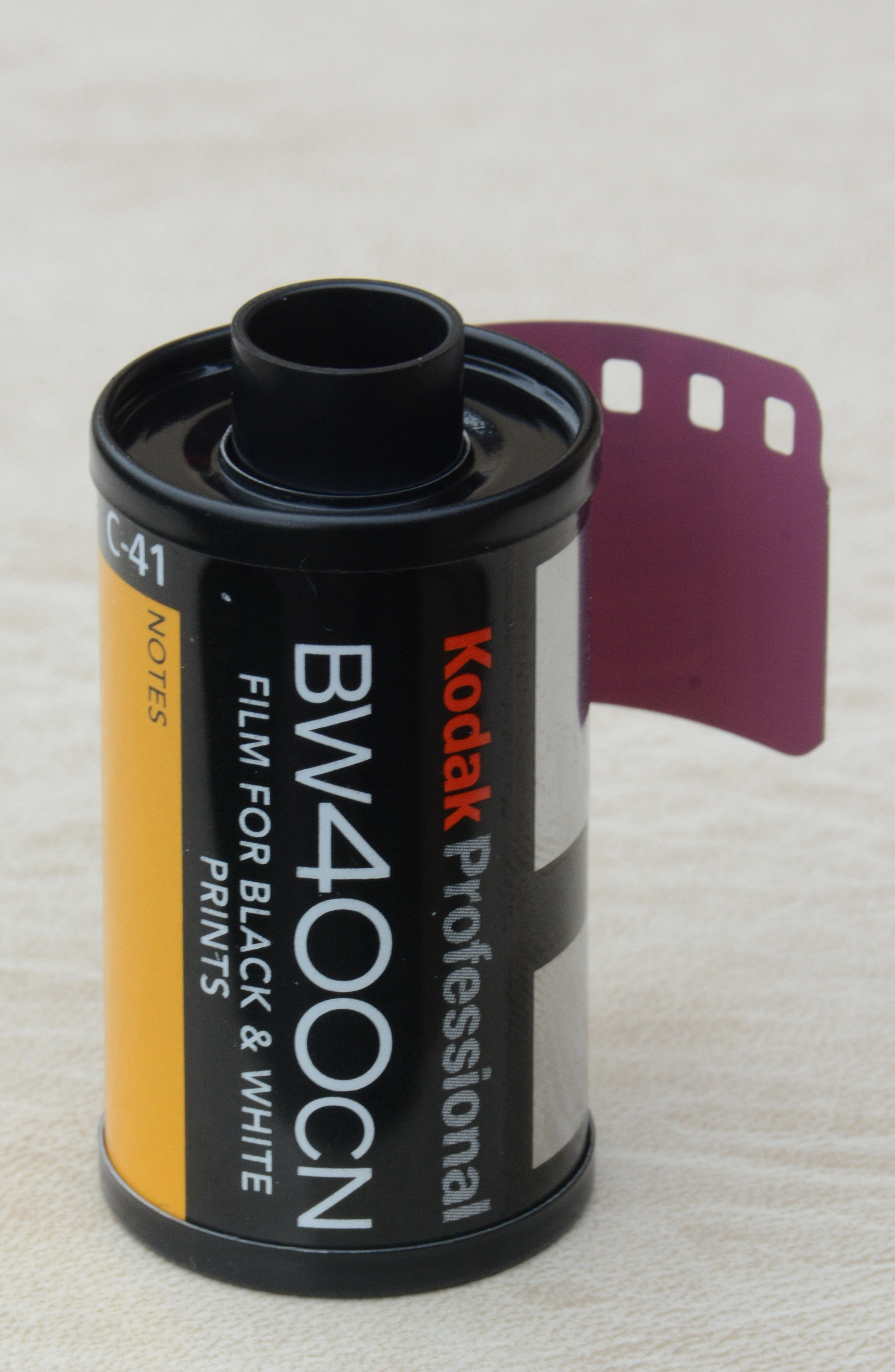 Kodak Professional BW400CN - Film for black & white prints